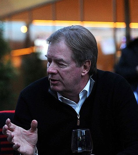 IOC member Larry Probst during Vladimir Putin's visit to USA House at the Olympic Park in Sochi.